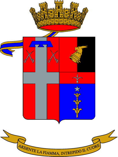 Coat of Arms of the 21° Artillery Regiment; Italian Army.